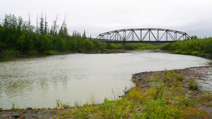 Dempster Highway crossing Eagle River